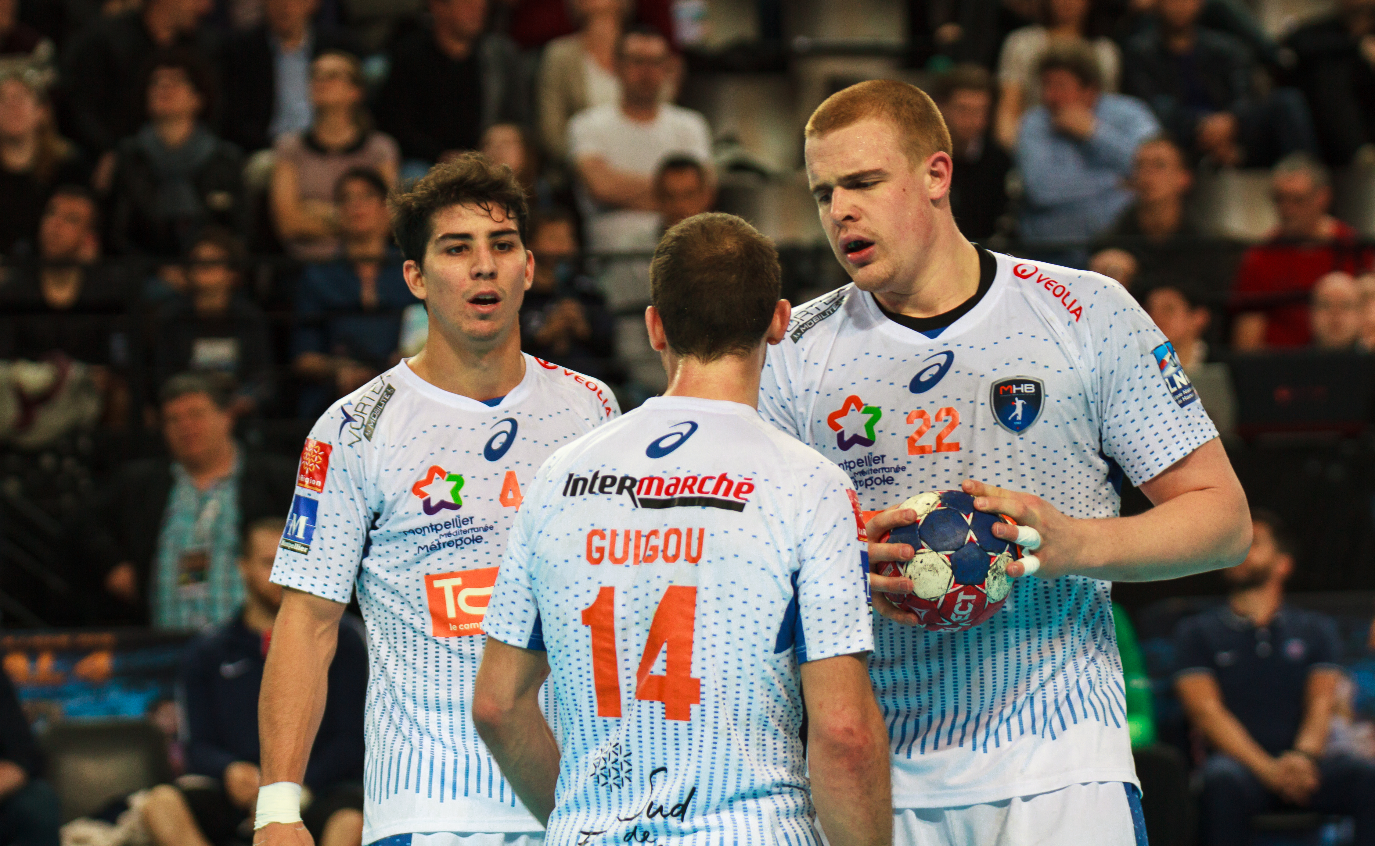 French Handball League final between Montpellier (MHB) and Paris (PSG) at the Arena hall: Montpellier's captain Guigou, Simonet and Gaber.